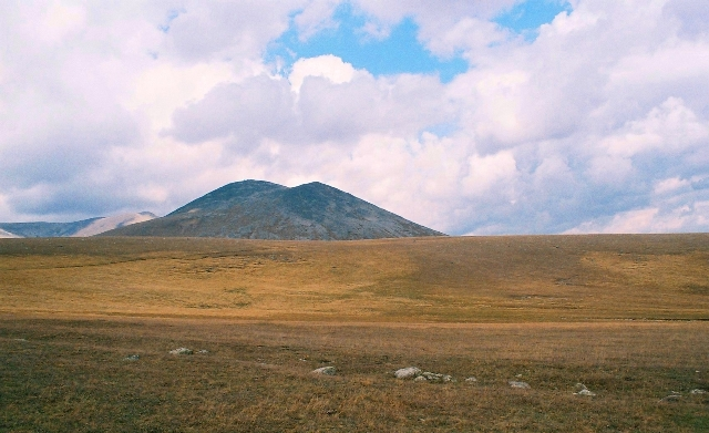 Shaori Fortress, Kologhli mountain